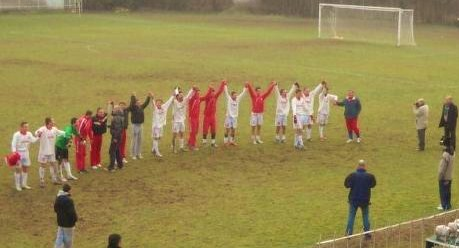 Tikveš players celebrate their first "Vuko Karov" trophy.